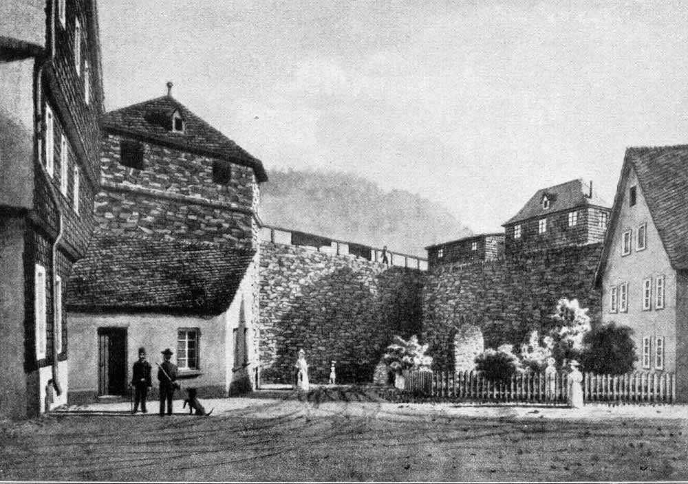 Historic view of the Löhrtor (Tanners’ Gate) of Siegen (Westphalia/Germany), ca. 1850. Scan of a painting by Wilhelm Scheiner (1852–1922)